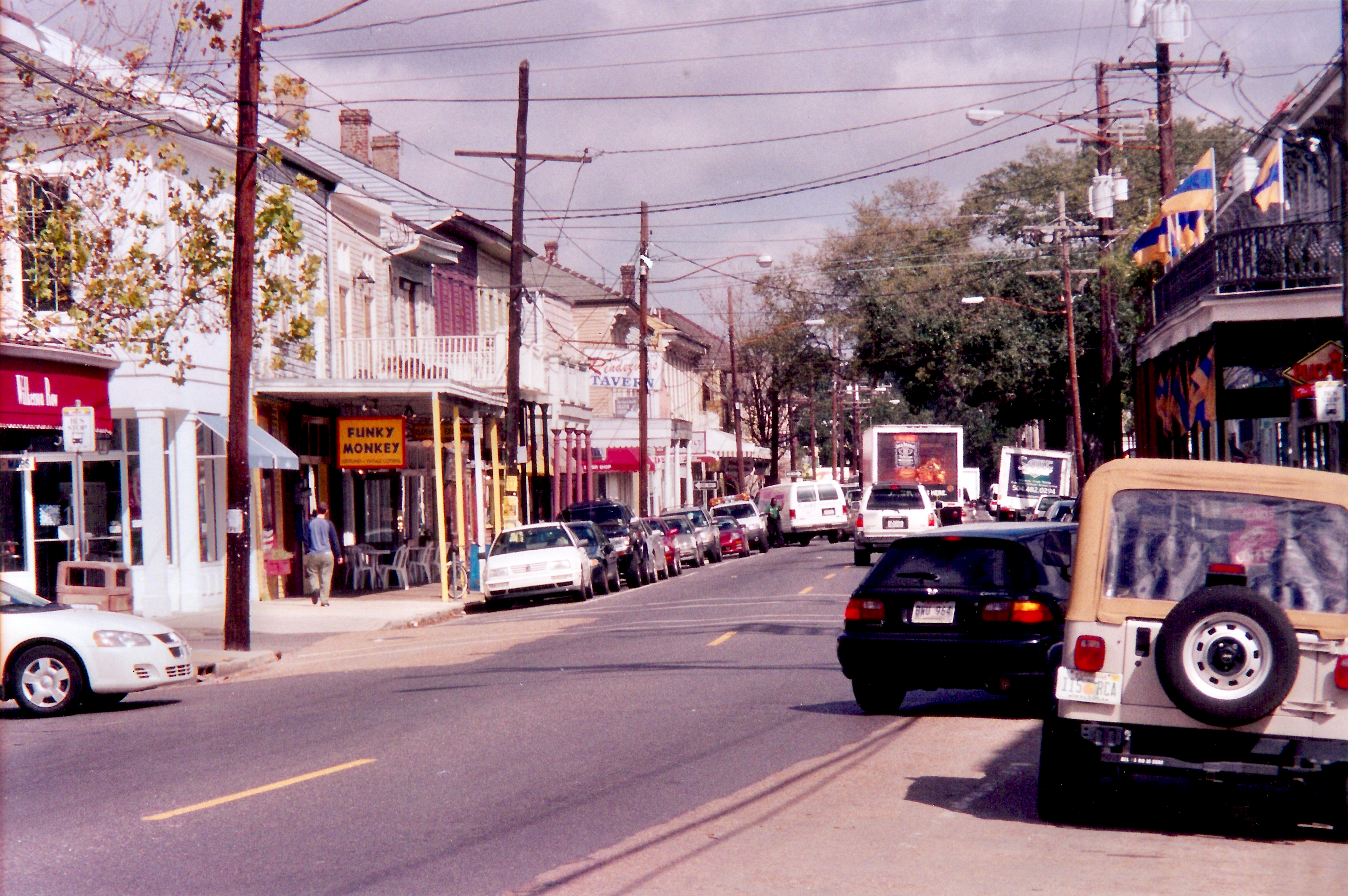 Shops along Magazine Street, Uptown New Orleans. View looking downriver from corner of Harmony Street.